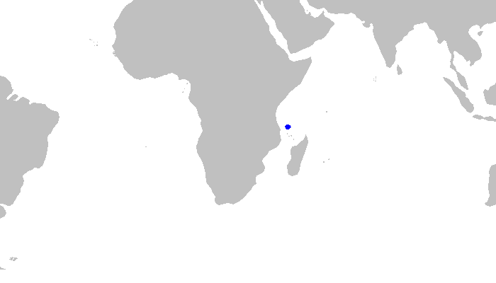 Distribution map for Scyliorhinus comoroensis